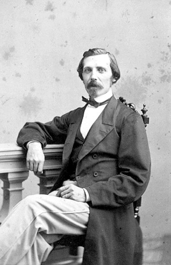 Nils Fredrik Sander (1828-1900), Swedish poet, art historian and civil servant.